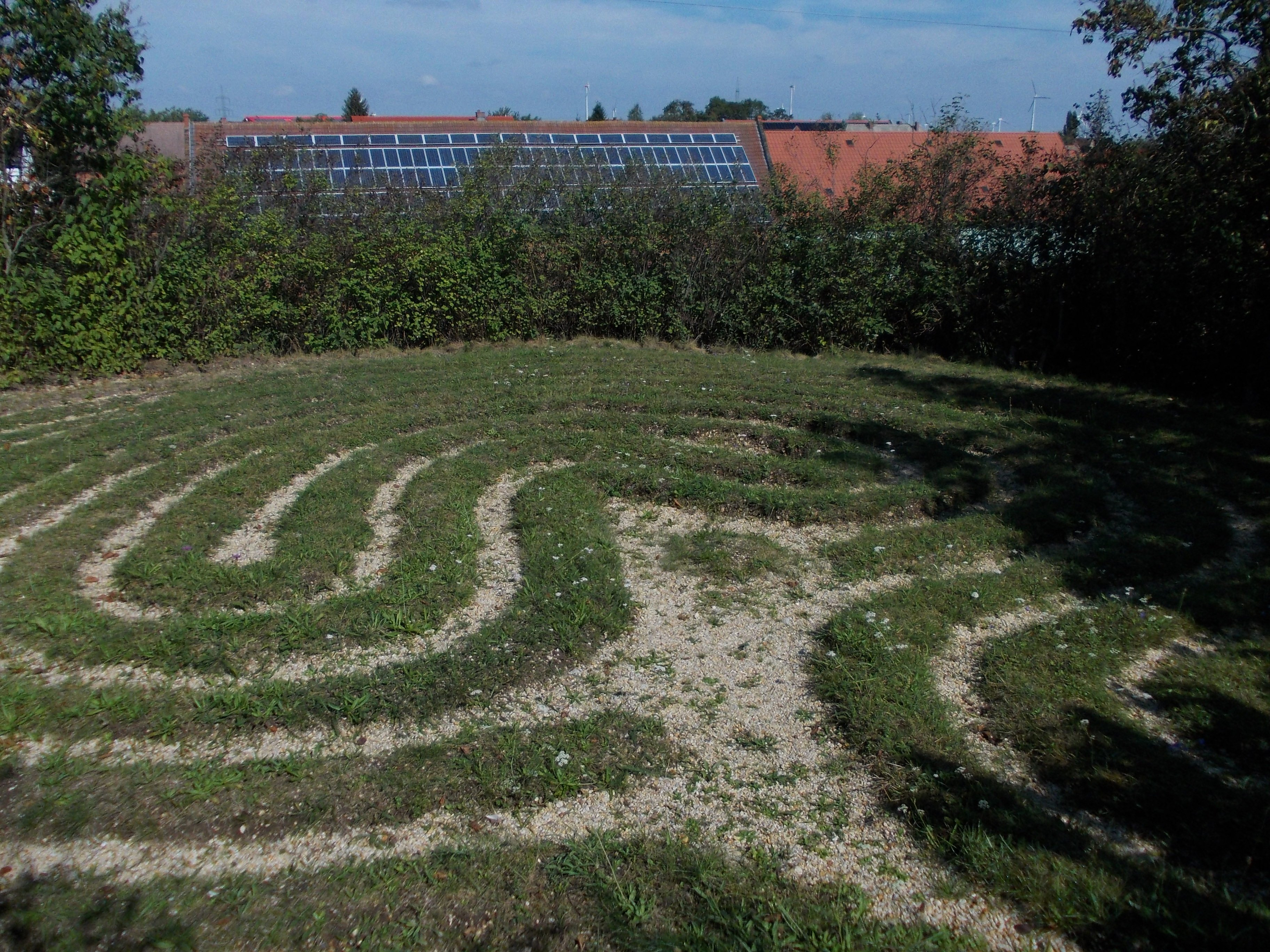 Schwedenhieb, a turf maze in Graitschen a. d. Höhe (Schkölen, district of Saale-Holzland-Kreis, Thuringia)